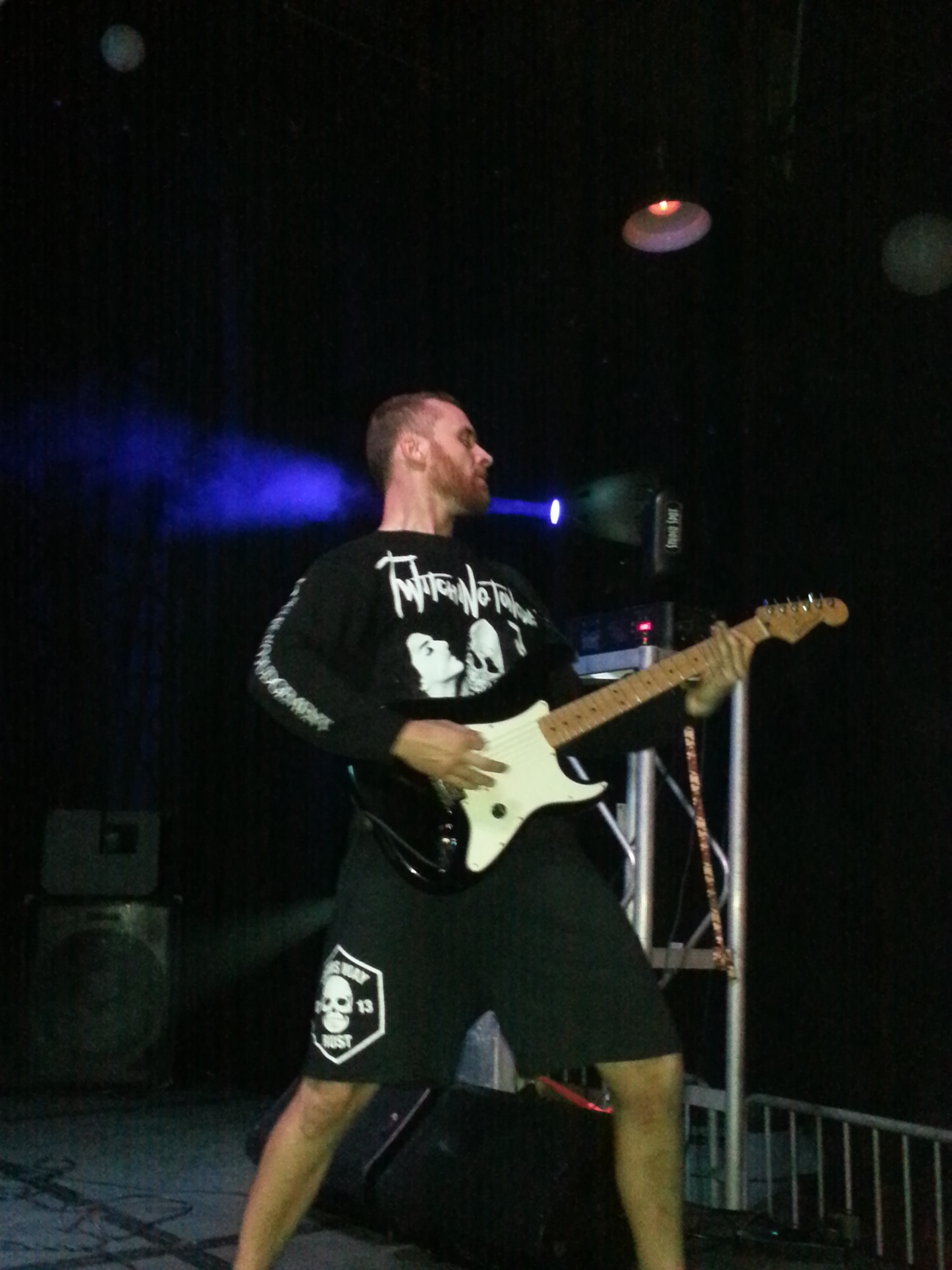 Jeff Stevensonof American heavy metal band Before the Mourning